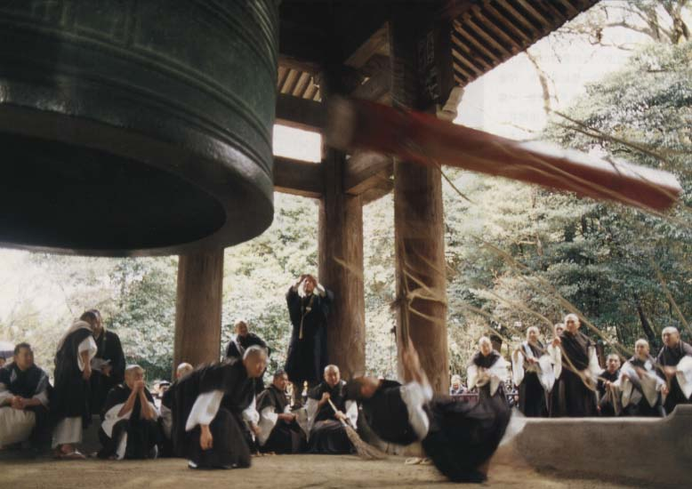 Kiyomizu-dera of the New Year,Kyoto where I was there enjoying the sound of their bell.Editoral Magazien